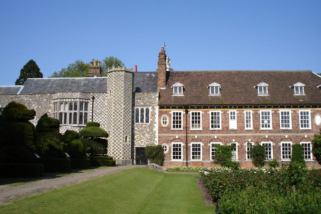 Hall Place near Bexley, London. This picture shows the contrast betwen the 16th-century stone half of Hall Place, and the 17th-century brick half. This replaces the previous picture, which was poor quality and didn't have any source/licensing details. I took this photo myself and am releasing it into the public domain. — P Ingerson (talk) 30 June 2005 21:58 (UTC) Category:Images of buildings and structures Category:Images of England